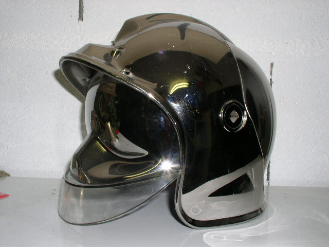 Helmet model F1